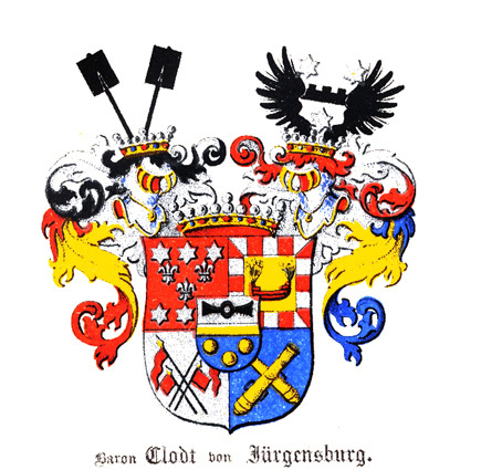 Coat of arms of barons Clodt von Jürgensburg